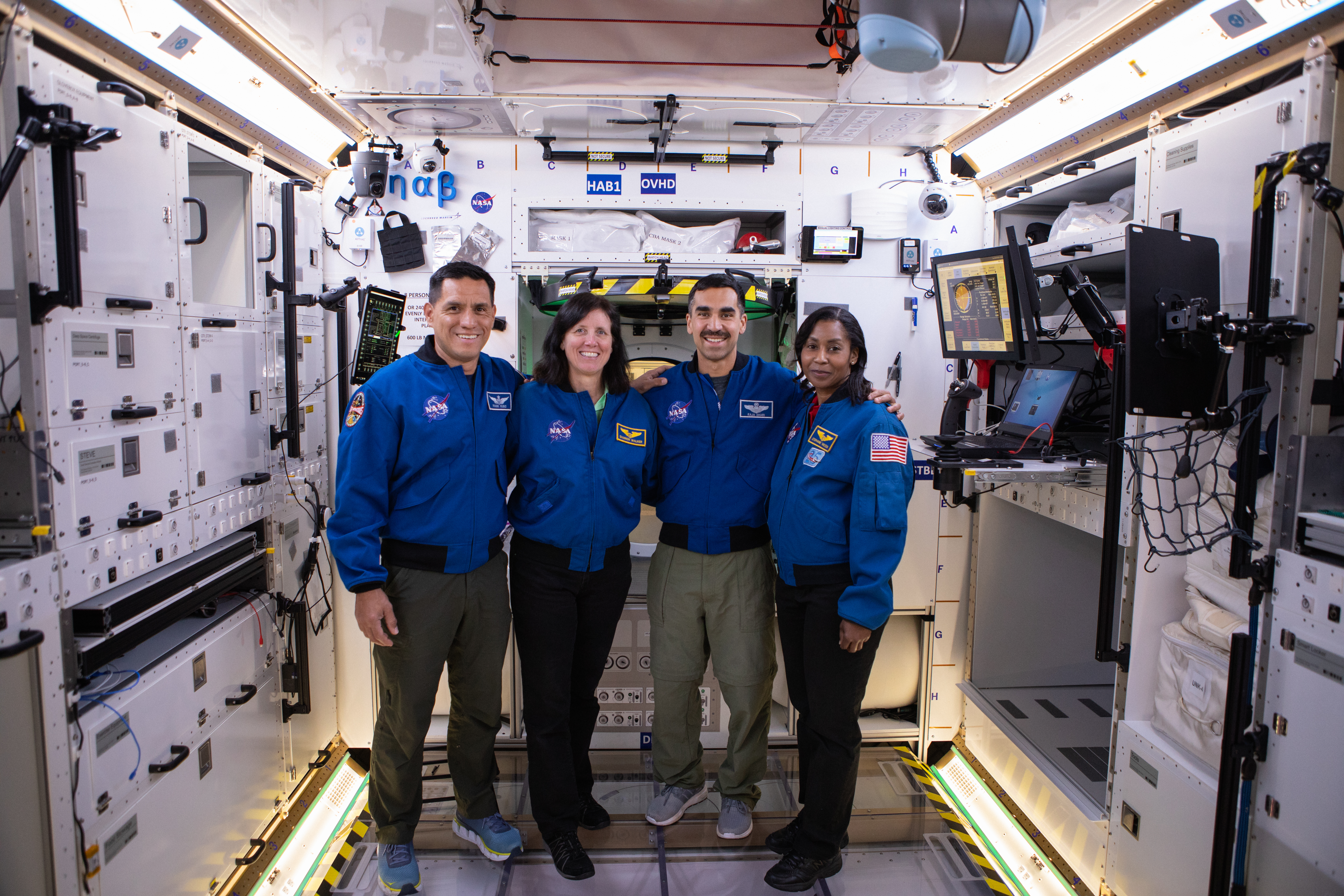 Group of four NASA astronauts and candidates standing inside the LOP-G space station training module at the SSPF